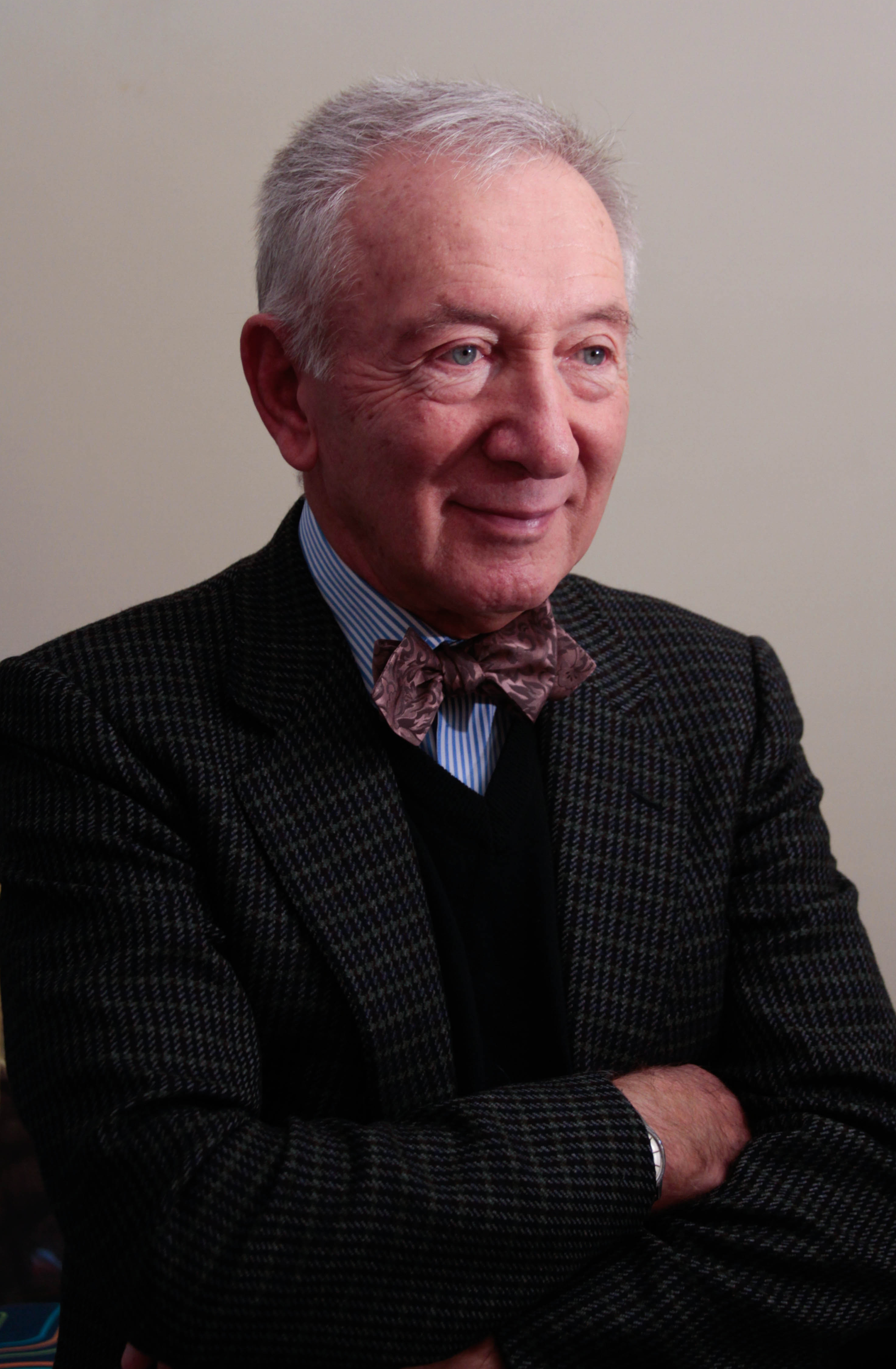 Photo by Levent Menekay